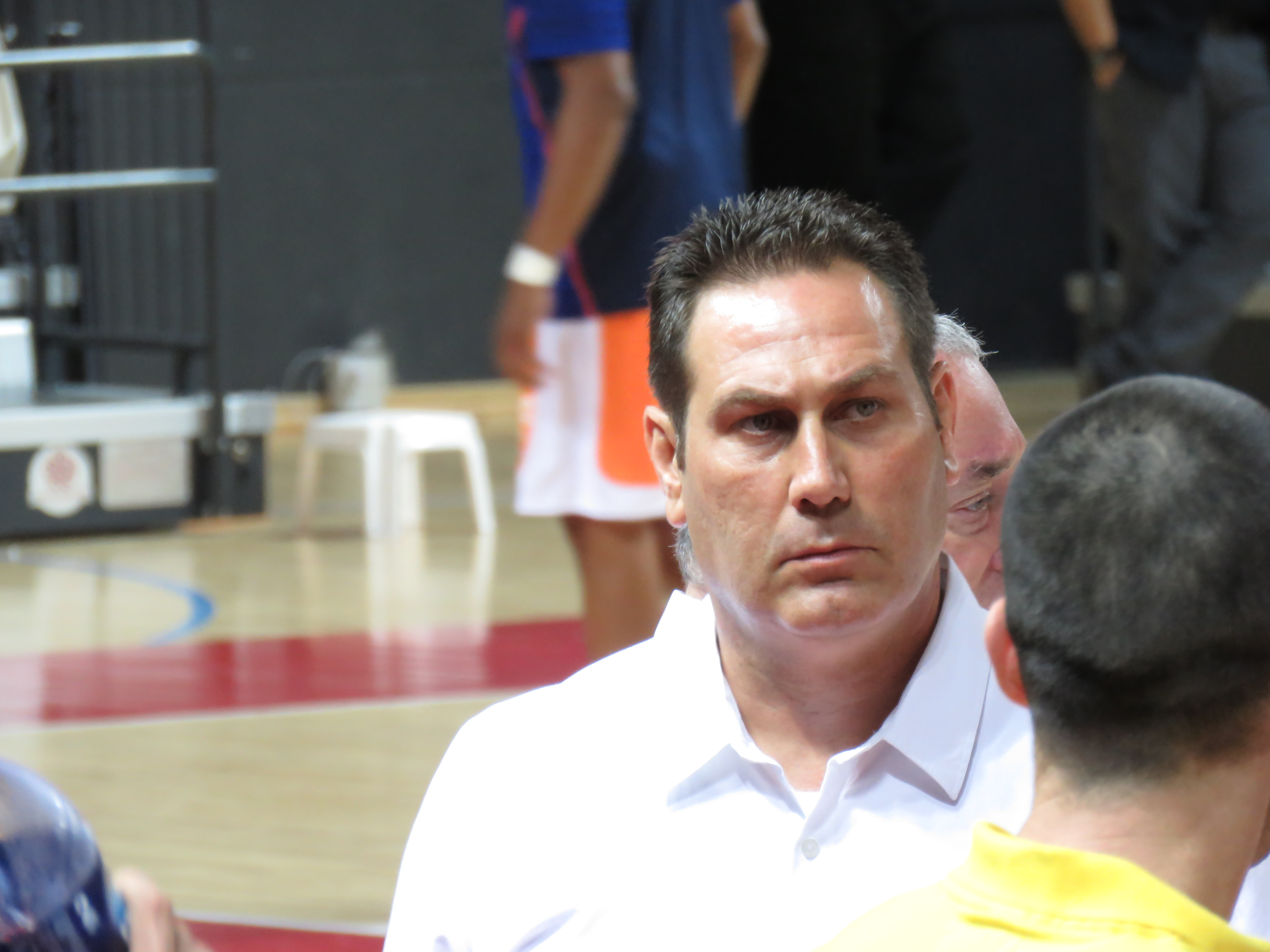 Maccabi Rishon LeZion vs. Maccabi Tel Aviv B.C., 26 September, 2015